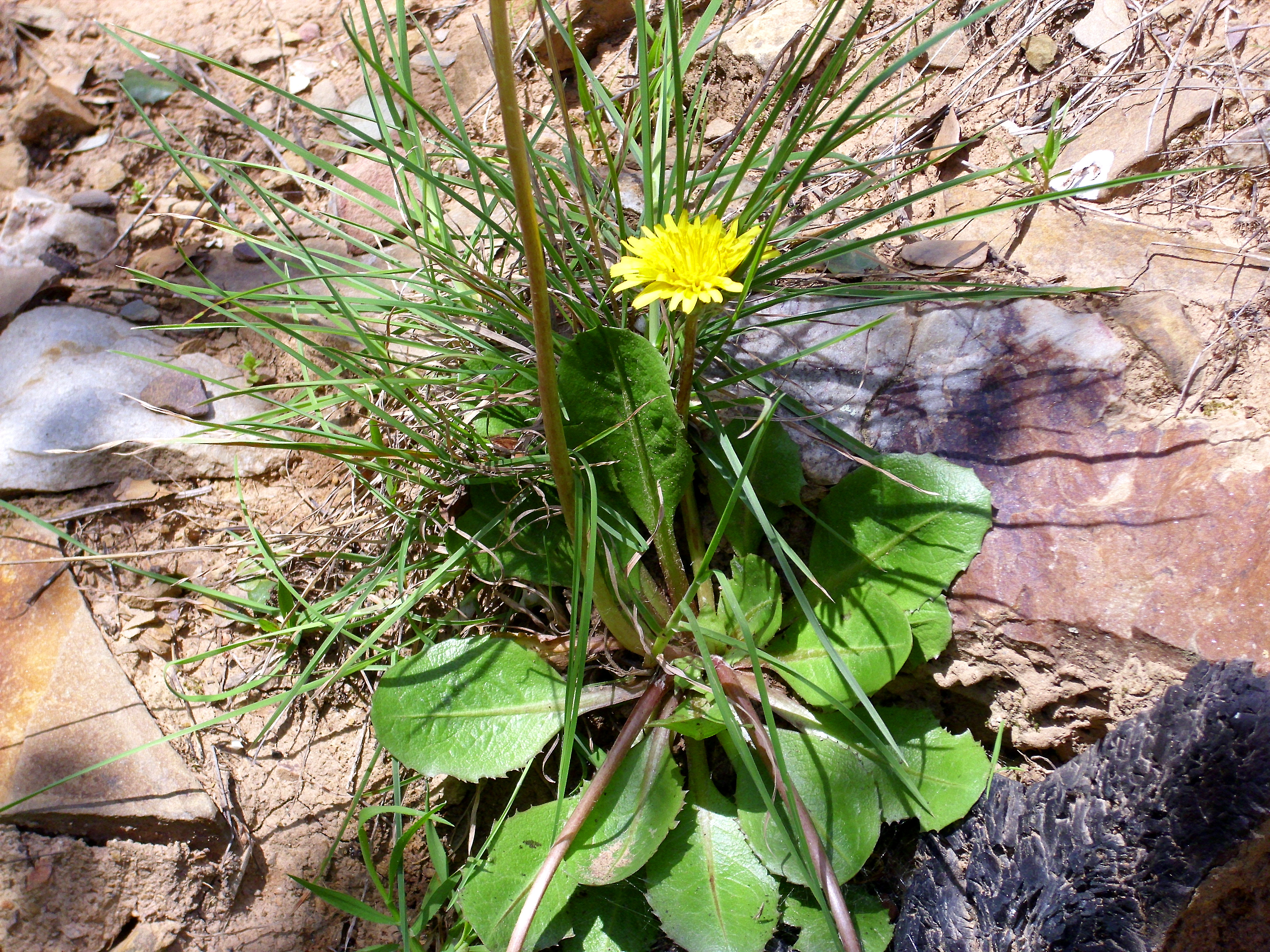 Taraxacum obovatum habit, Sierra Madrona, Spain